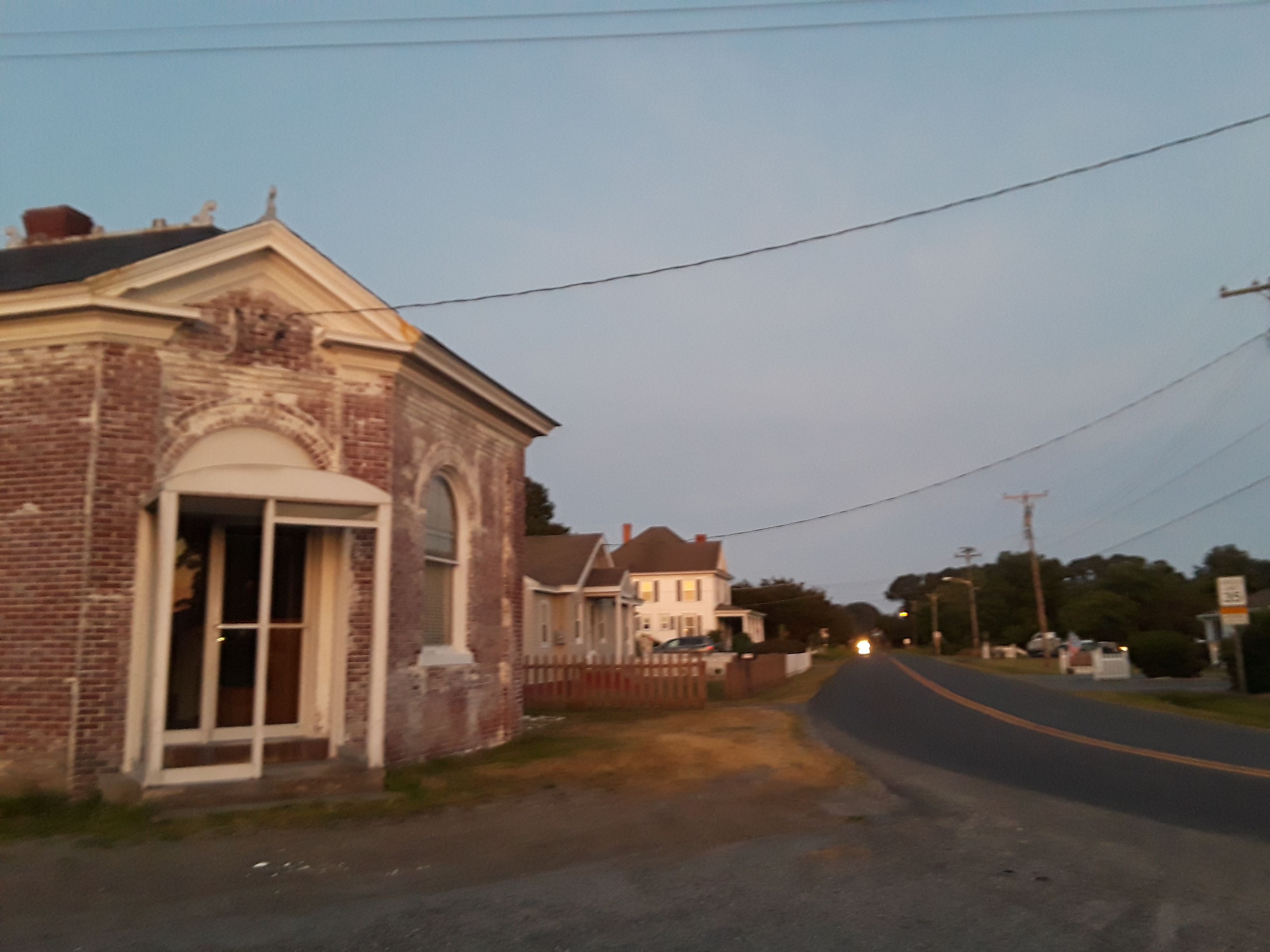 Taken on a visit to the Eastern Shore of Virginia, July 2018